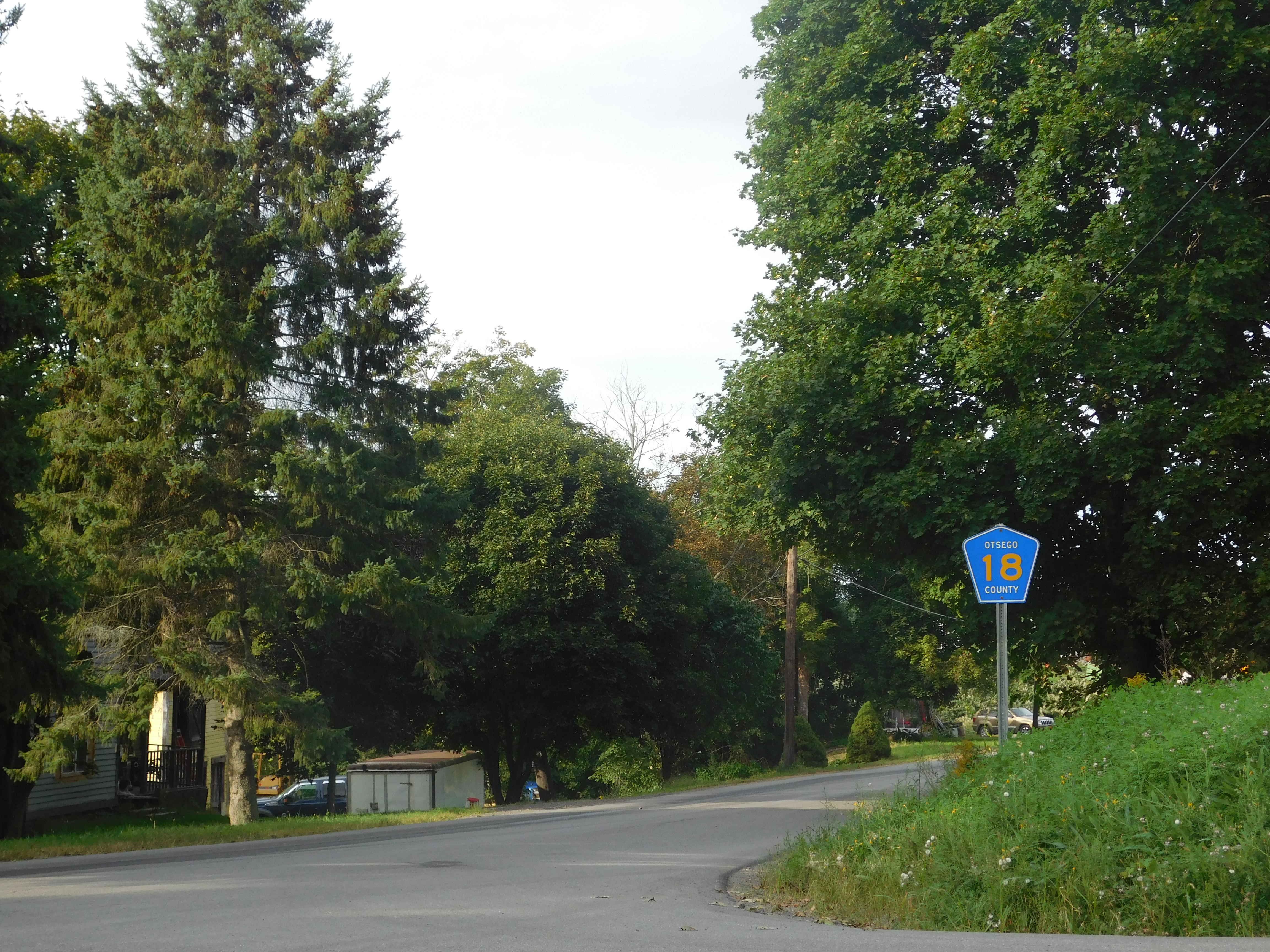 Otsego County Route 18 in South Edmeston, New York.